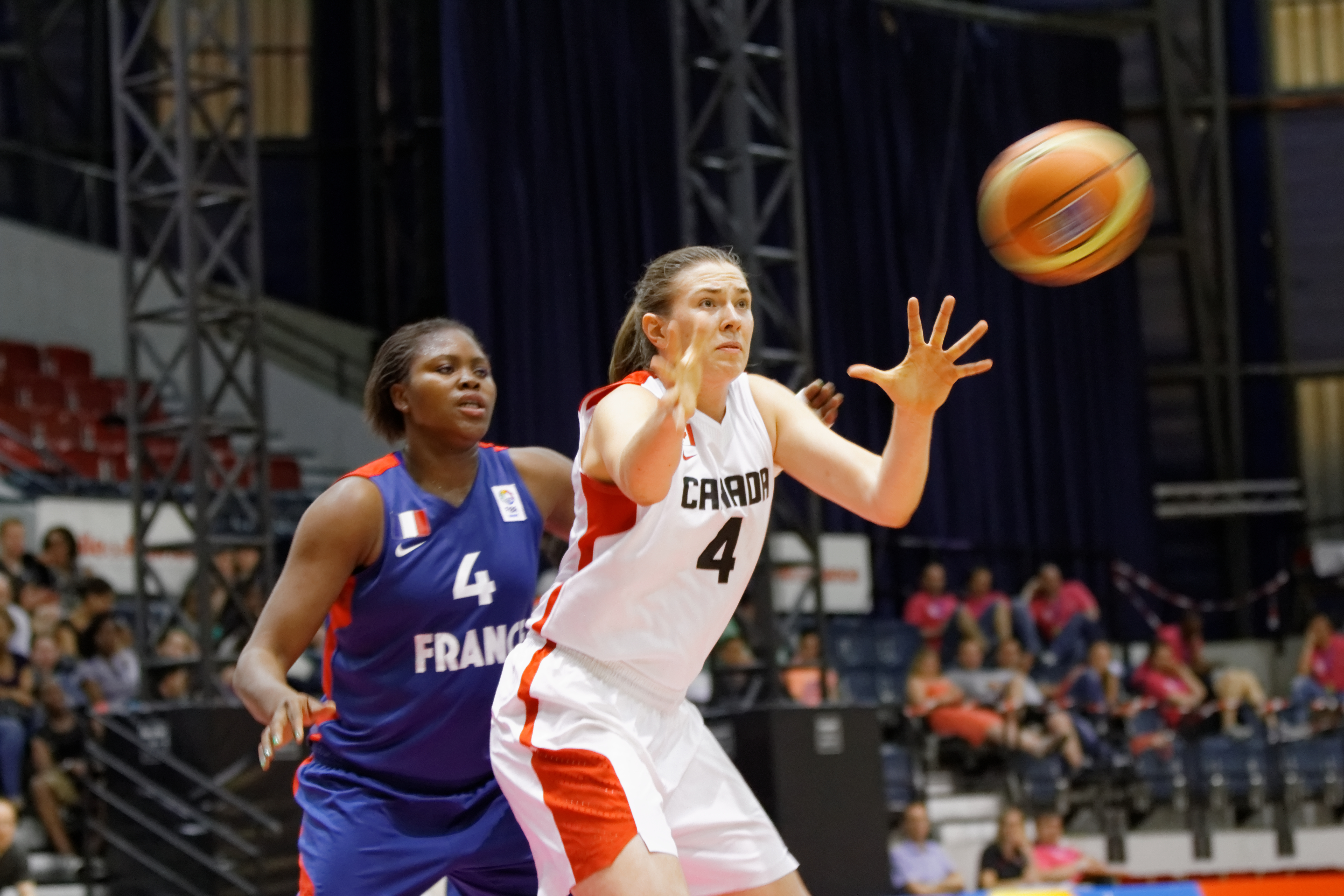 EuroEssonne, France - Canada, 7 June 2013.